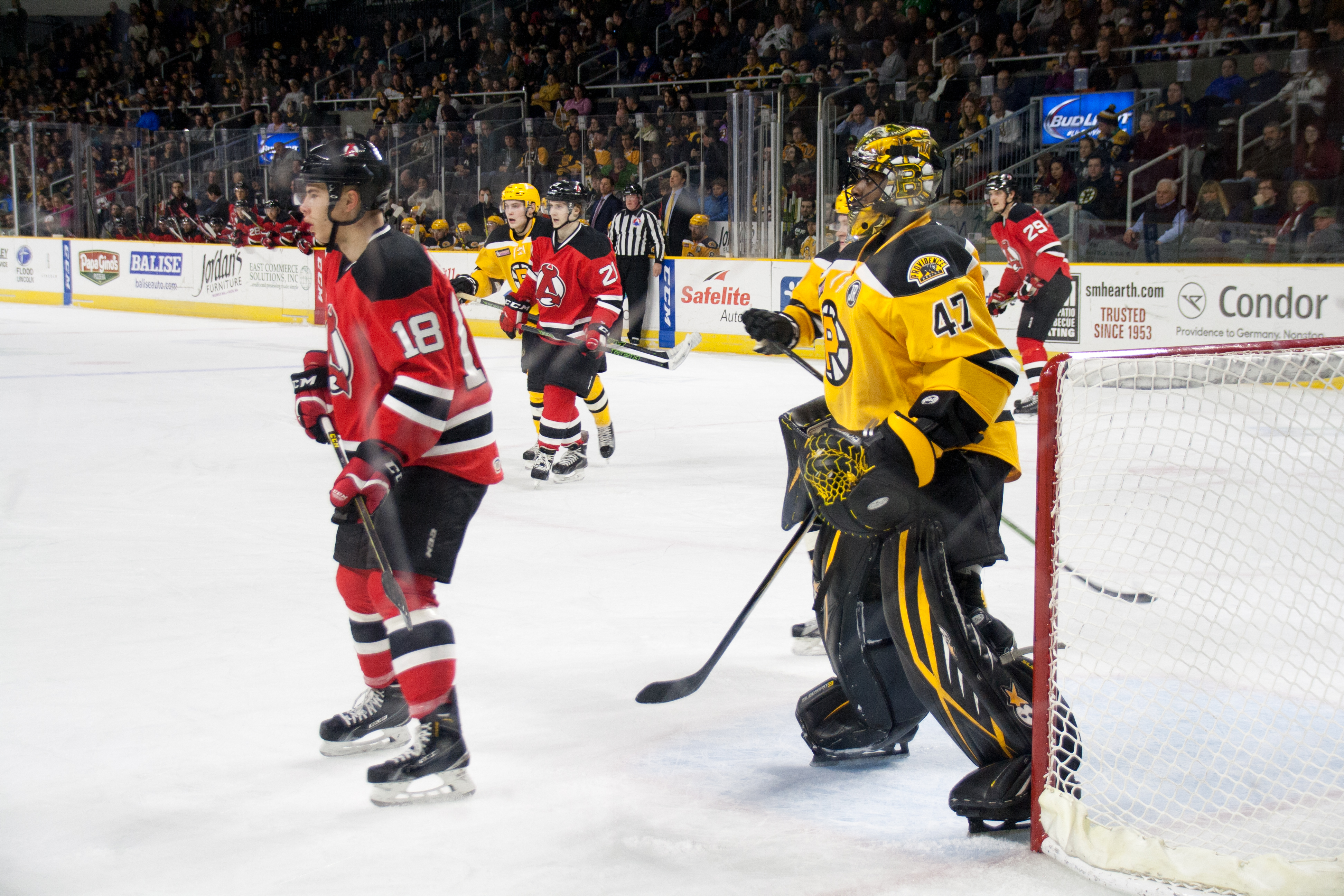 Blake Pietila of the Albany Devils and Malcolm Subban of the Providence Bruins